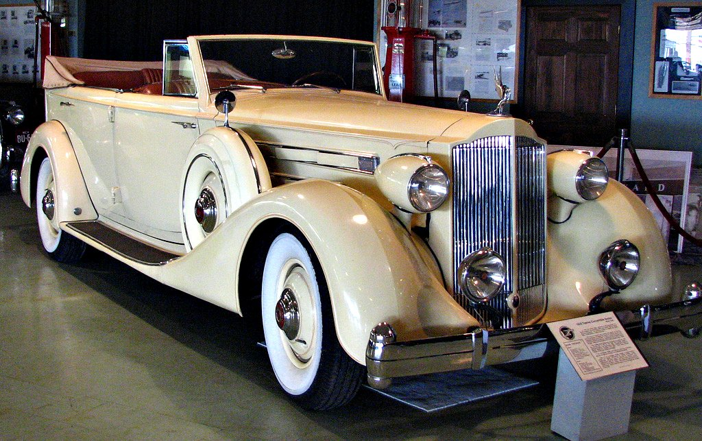 1935 Packard Twelve model 1208 Convertible Sedan; 12cylinder Seen at America's Packard Museum in Dayton, Ohio